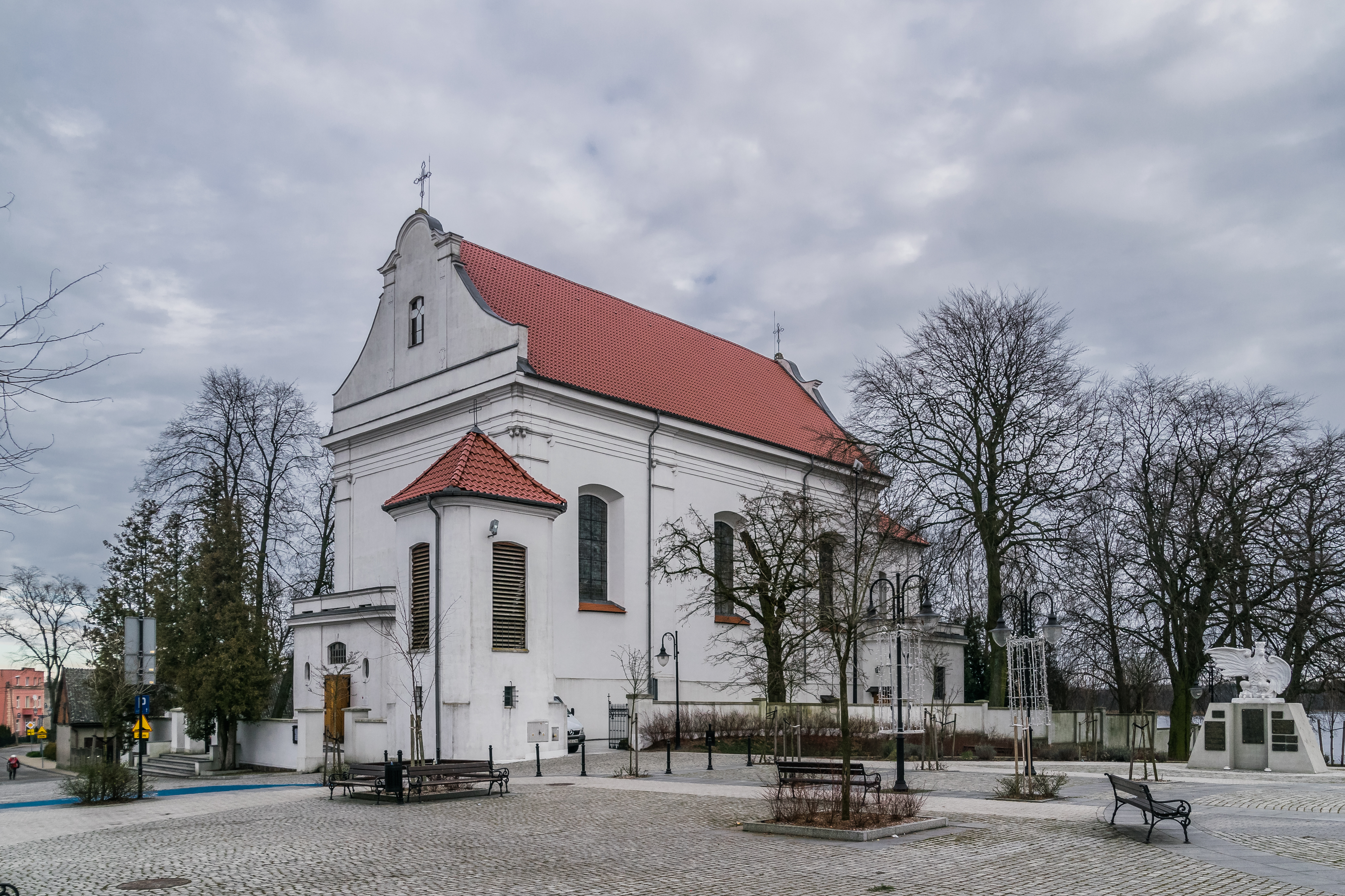 Saints Simon and Jude church in Więcbork, Kuyavian-Pomeranian Voivodeship, Poland